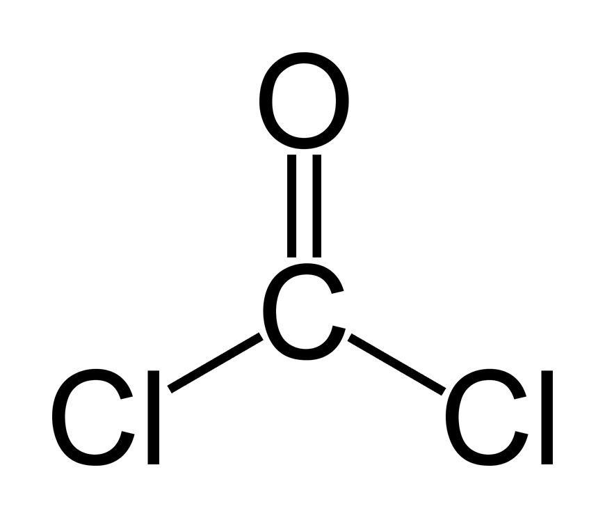 Structural formula of phosgene (COCl2)